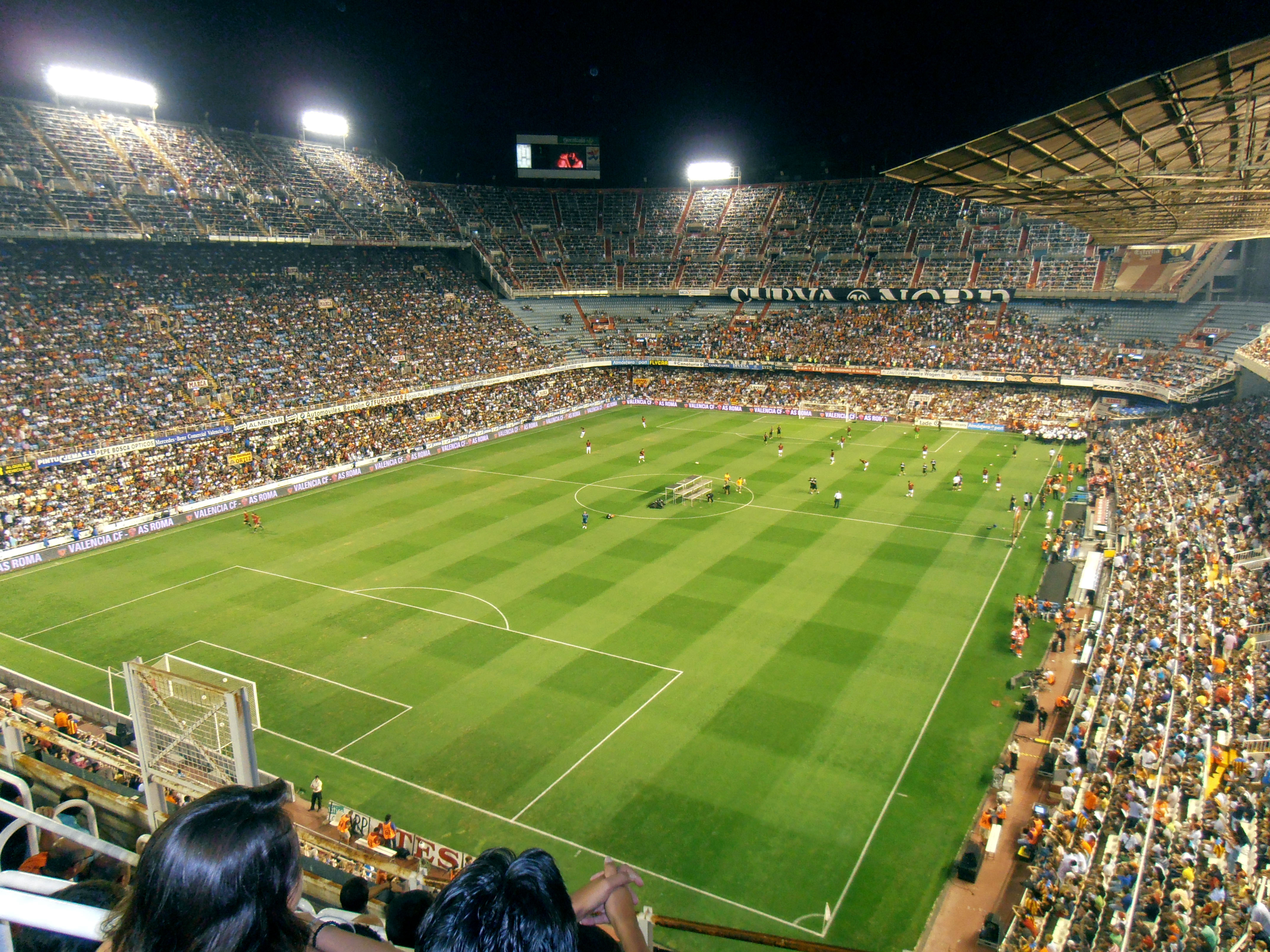 Mestalla almost full after the presentation for new season 2011-12 and before playing against Roma in the Trofeu Taronja 2011. Valencia, 12th August 2011 at 21:36